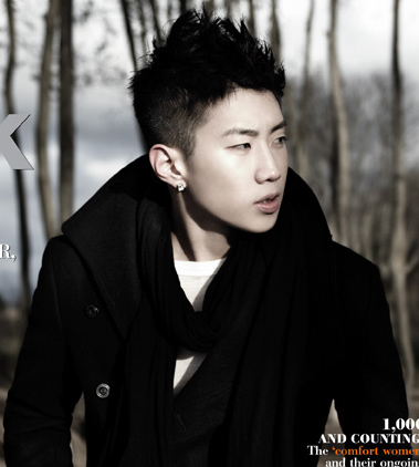 Extracted from KoreAm cover.